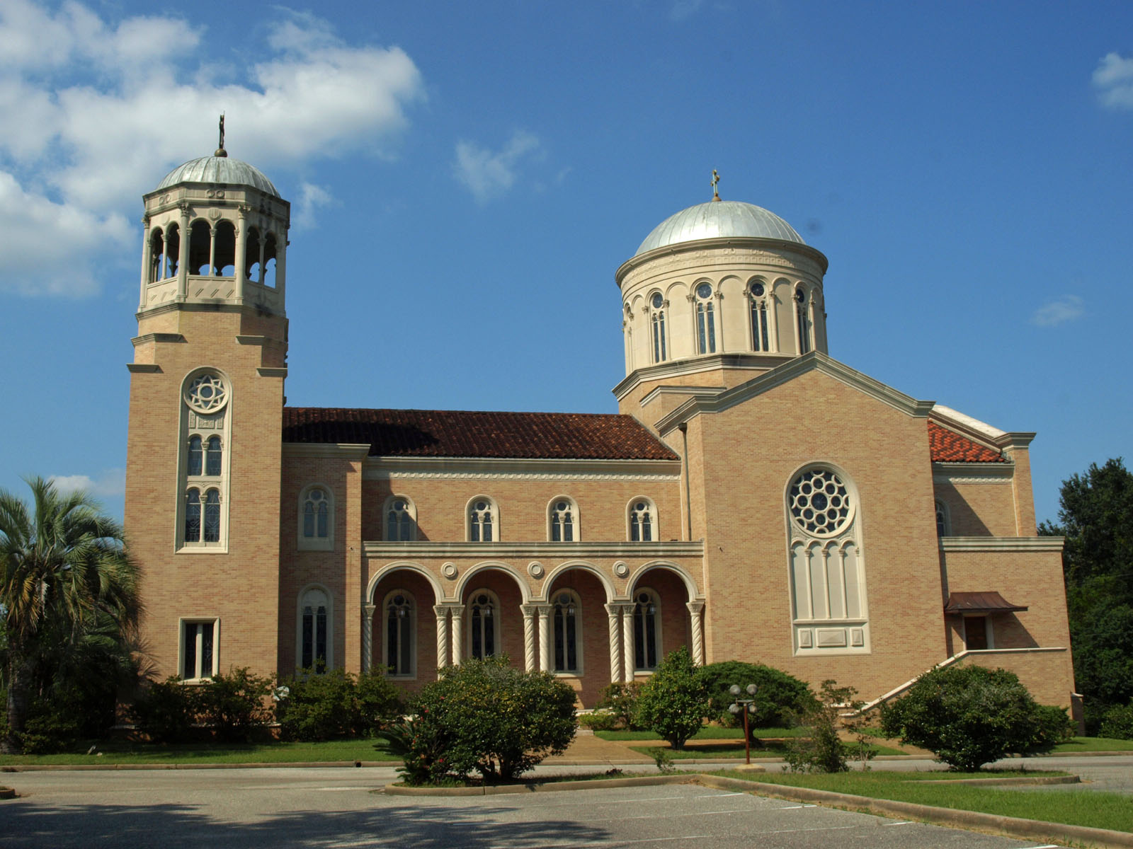 Malbis Memorial Church in Malbis, Alabama, listed on the Alabama Register of Landmarks and Heritage.